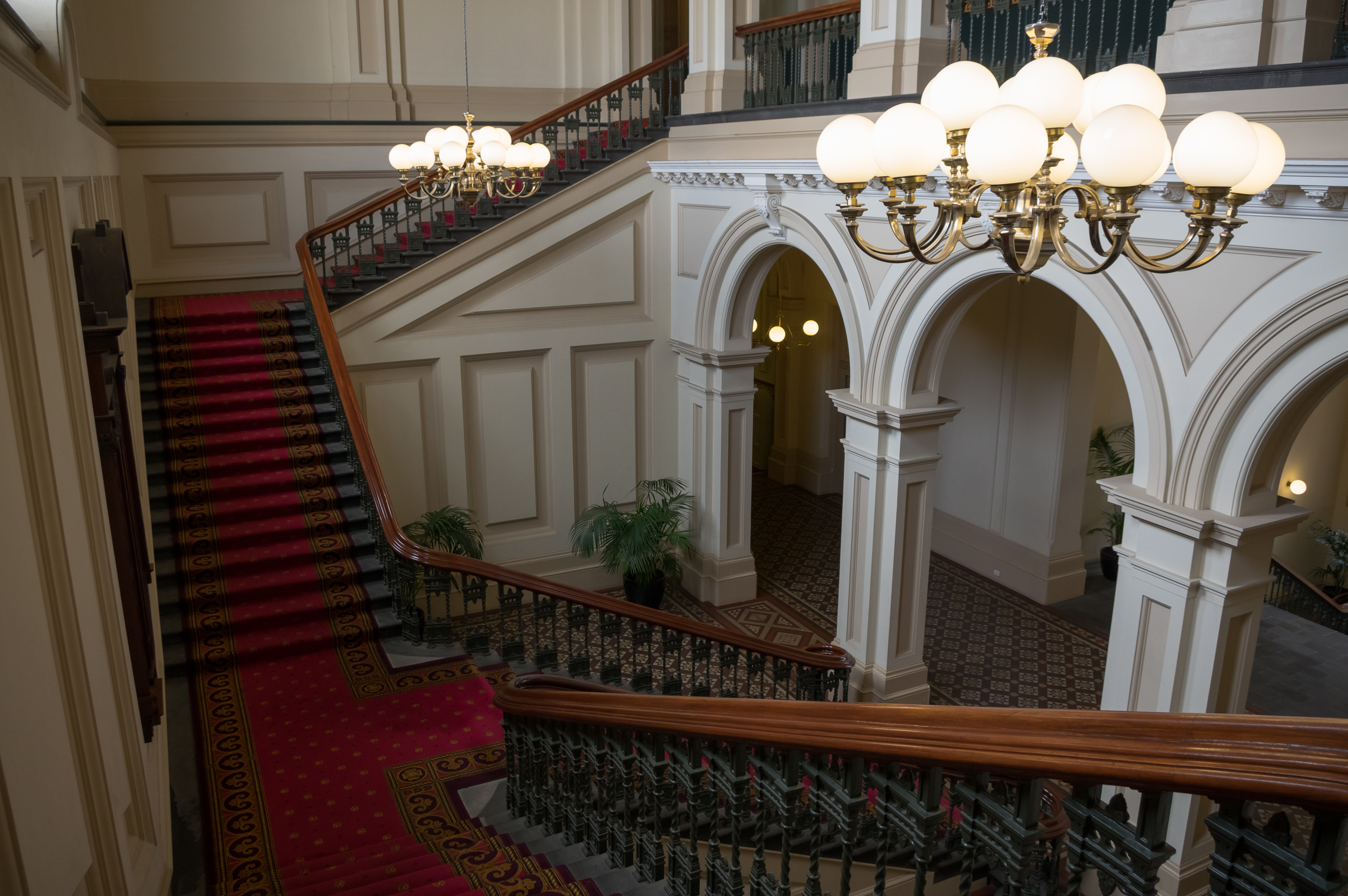 The staircase of the former Victorian Railways Administrative Buildings, at 67 Spencer Street, Docklands, Melbourne, Australia